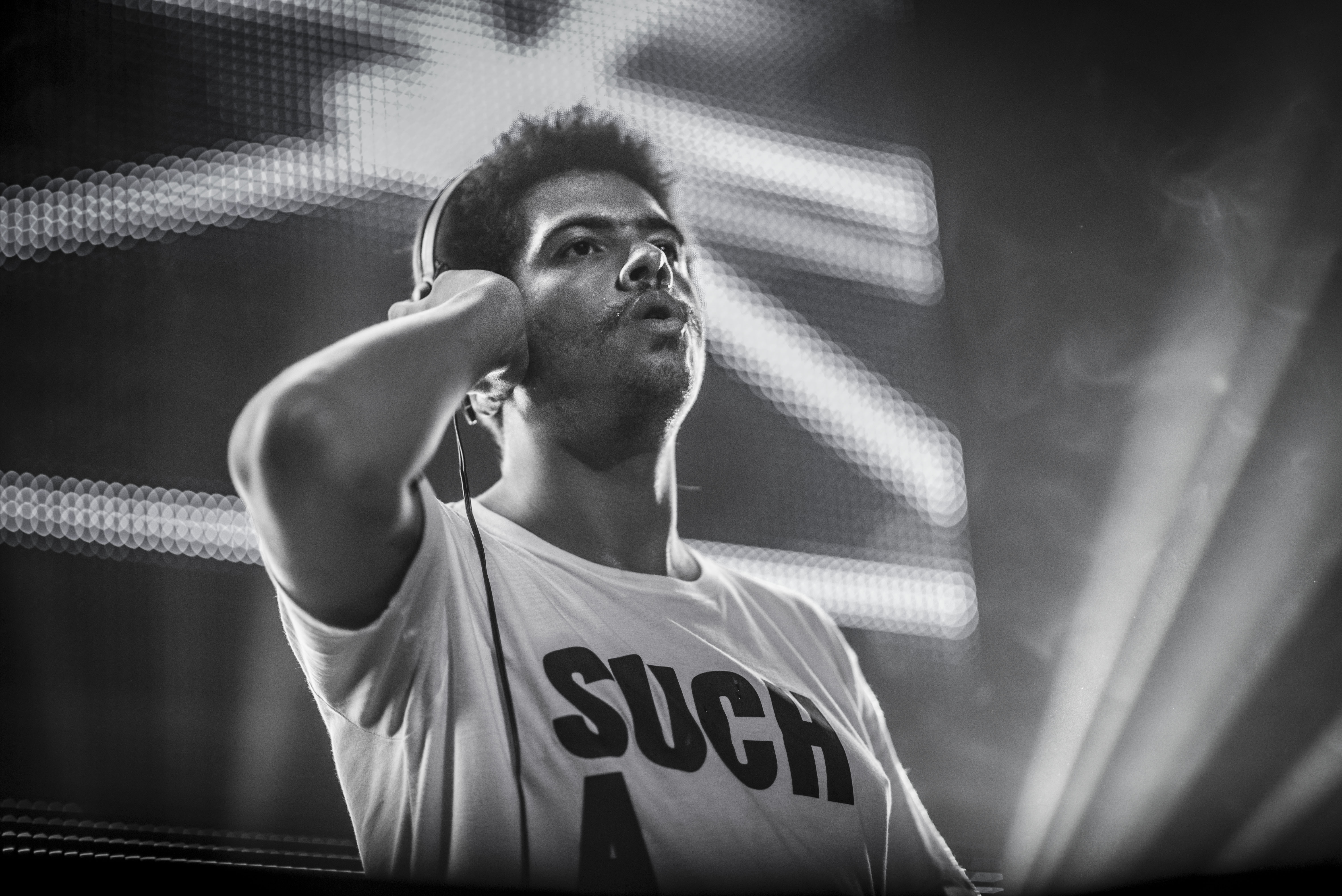 Seth Troxler at Mint Festival, Leeds